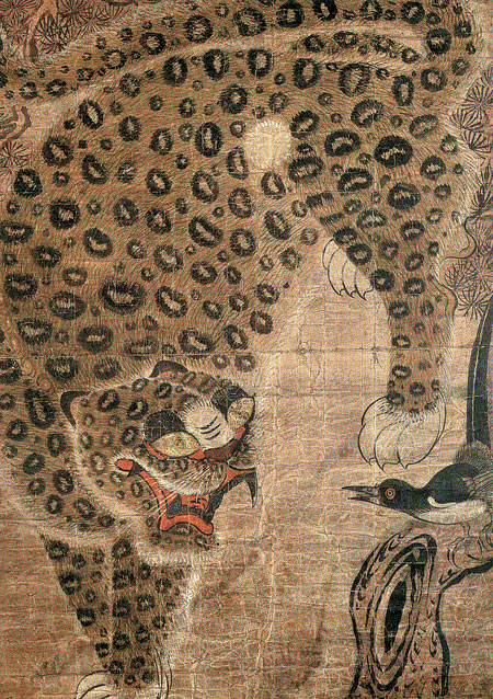 민화 (Korean folk painting)- 까치와 호랑이